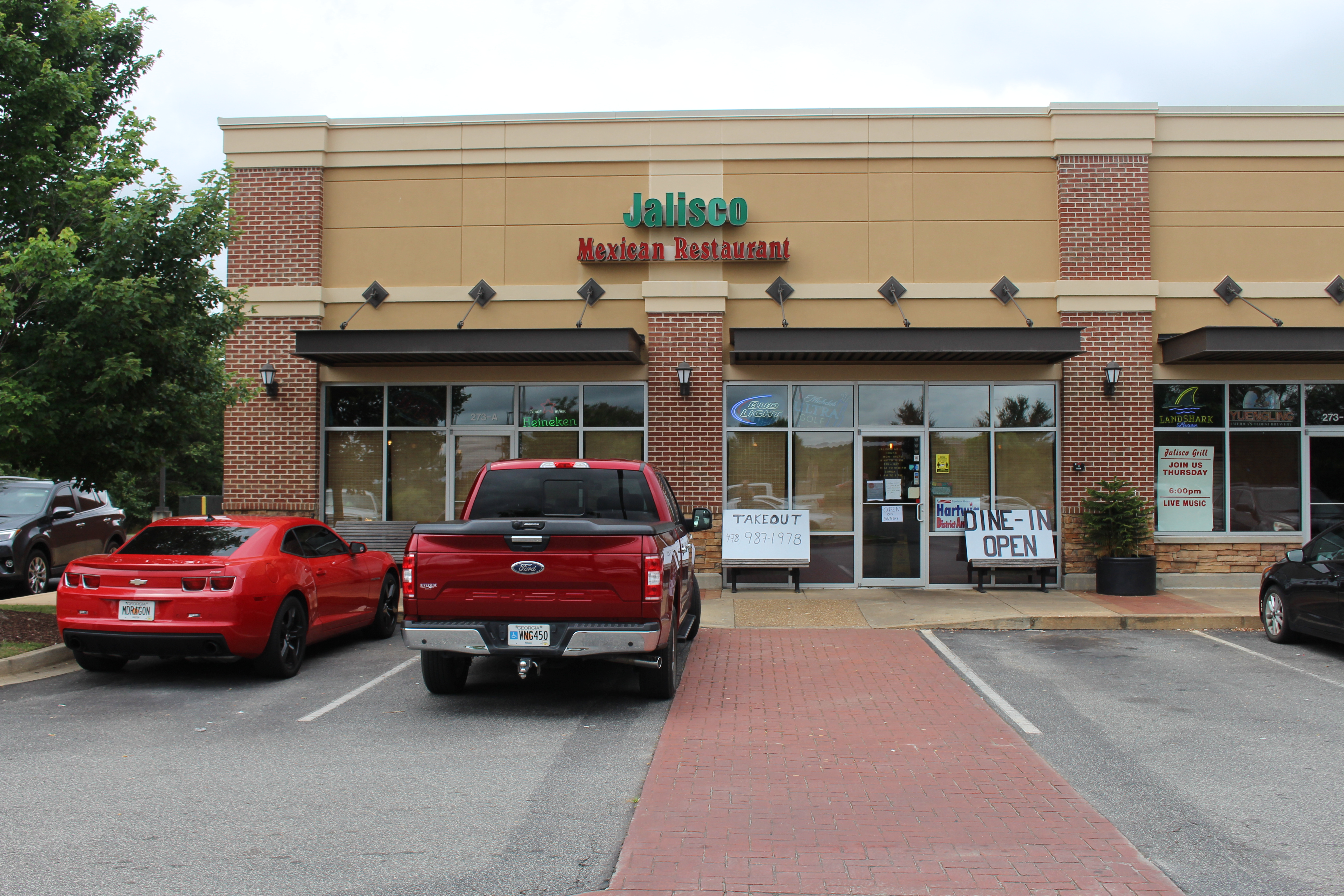 Jalisco Mexican Restaurant, Perry. This was the first Sunday that the restaurant has opened since the COVID-19 shutdown.